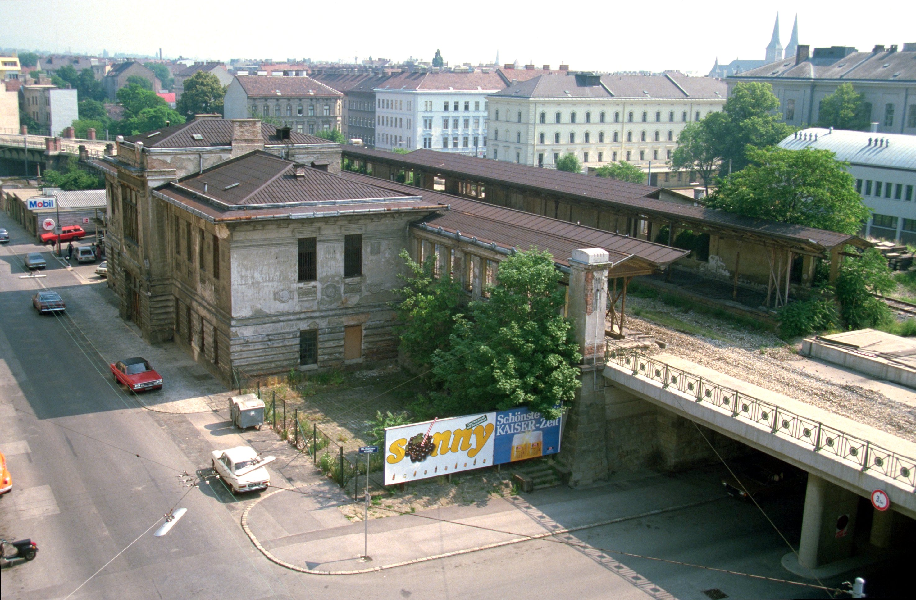 The Ottakring station of the Vorortelinie (S45) railway line prior to its reactivation